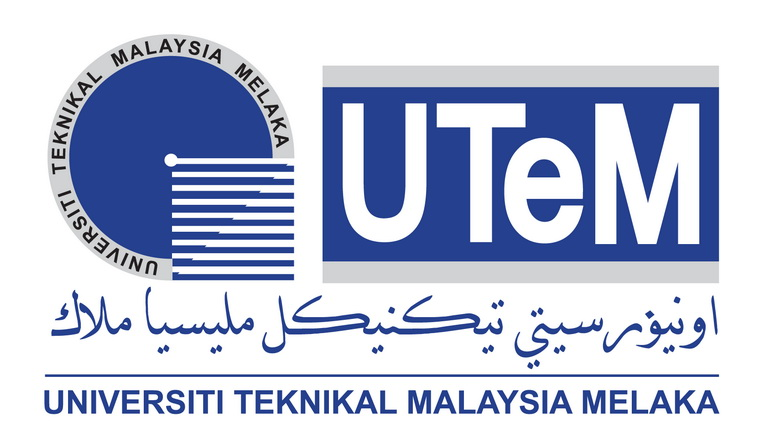 UTeMLogo